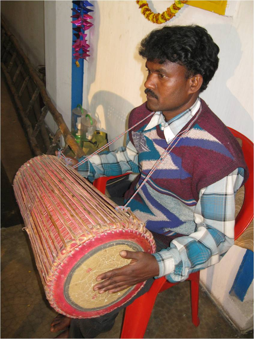 A Santal drummer playing Tumda